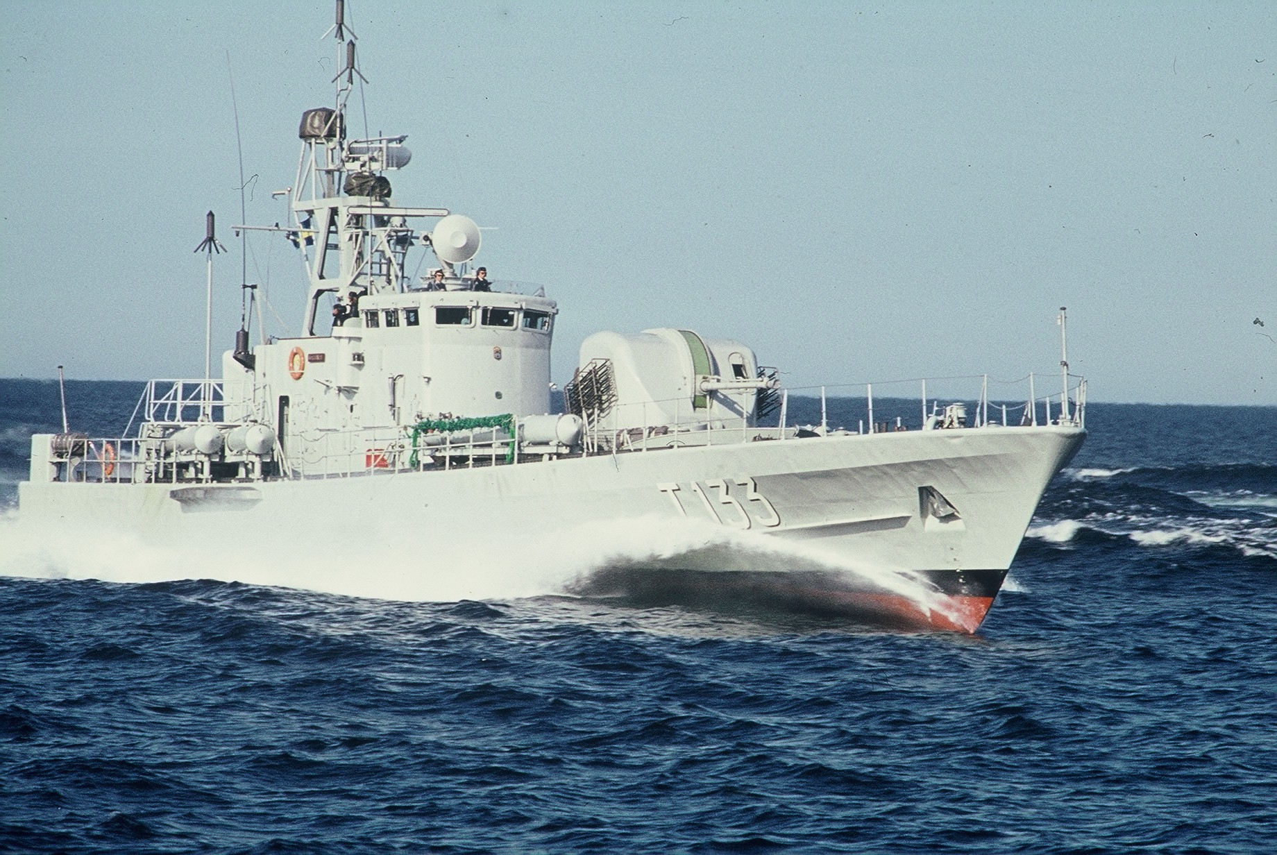 The Swedish torpedo boat (later missile boat) HMS Norrtälje (T133/R133).